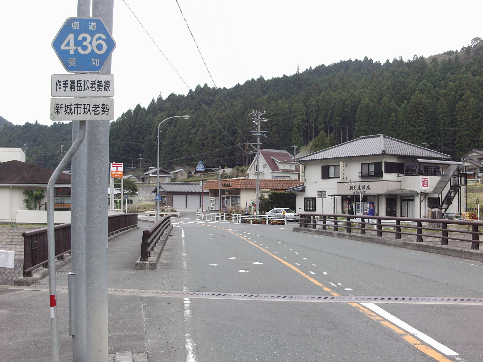 Aichi prefectural road No.436 in Kuroze, Shinshiro, Aichi.